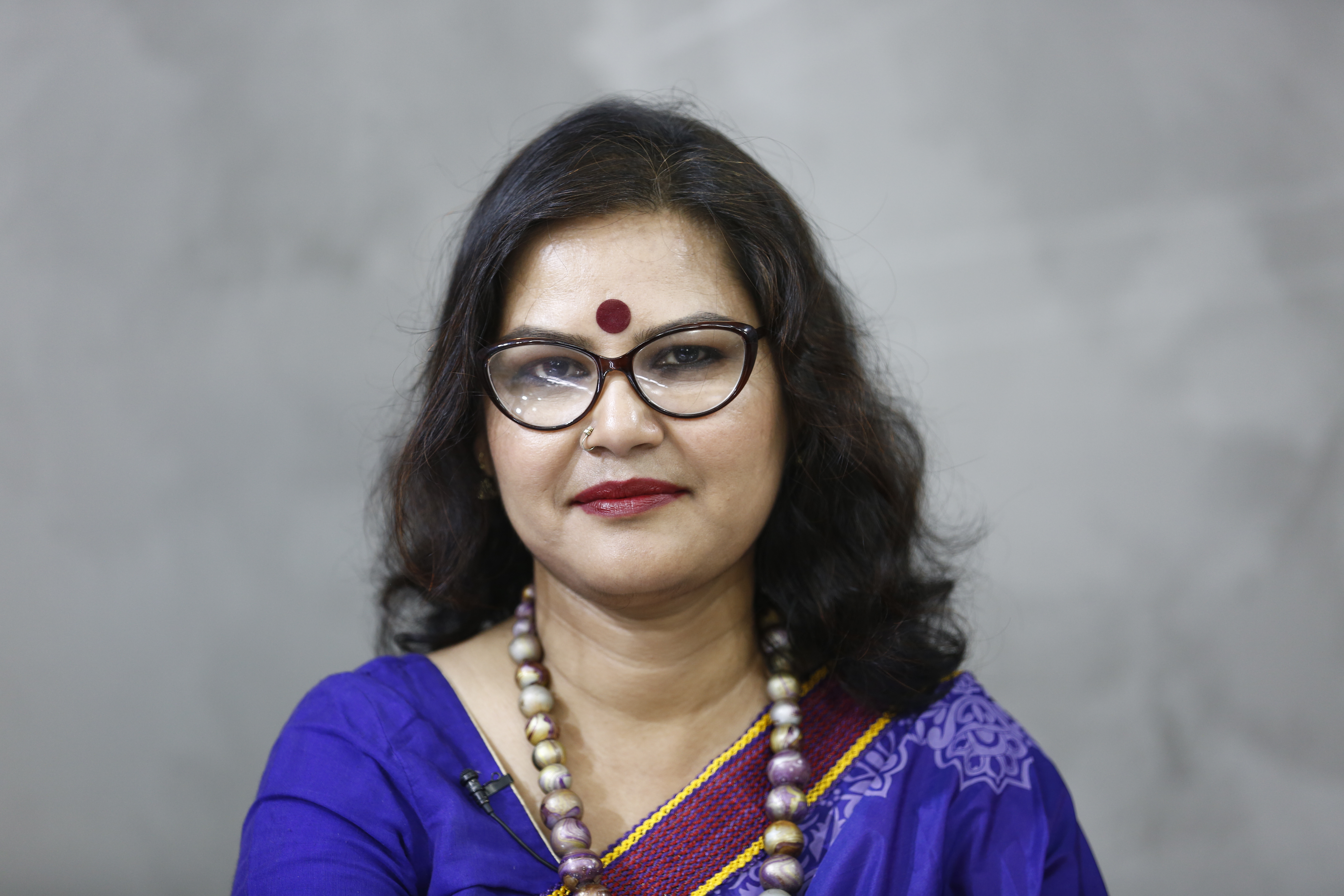 Shahnaz Munni, Bangladeshi journalist